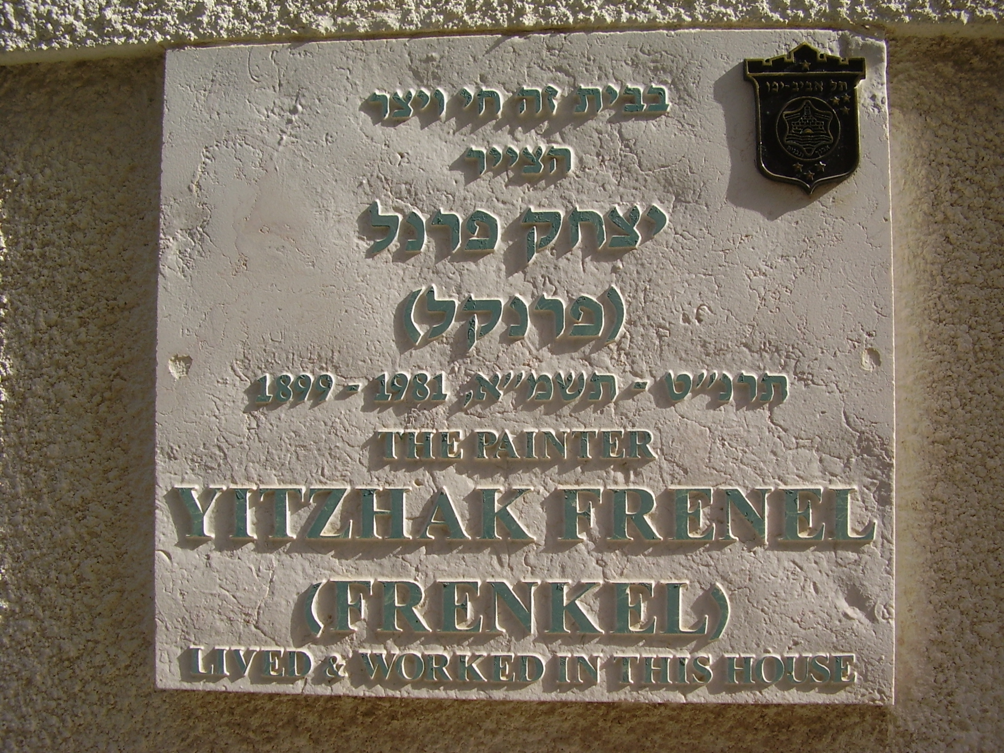 memorial plaque to the painter yitzhak frenkel in tel aviv לוחית זיכרון על ביתו של הצייר יצחק פרנקל-פרנל ברח' גוטליב 10 בתל אביב